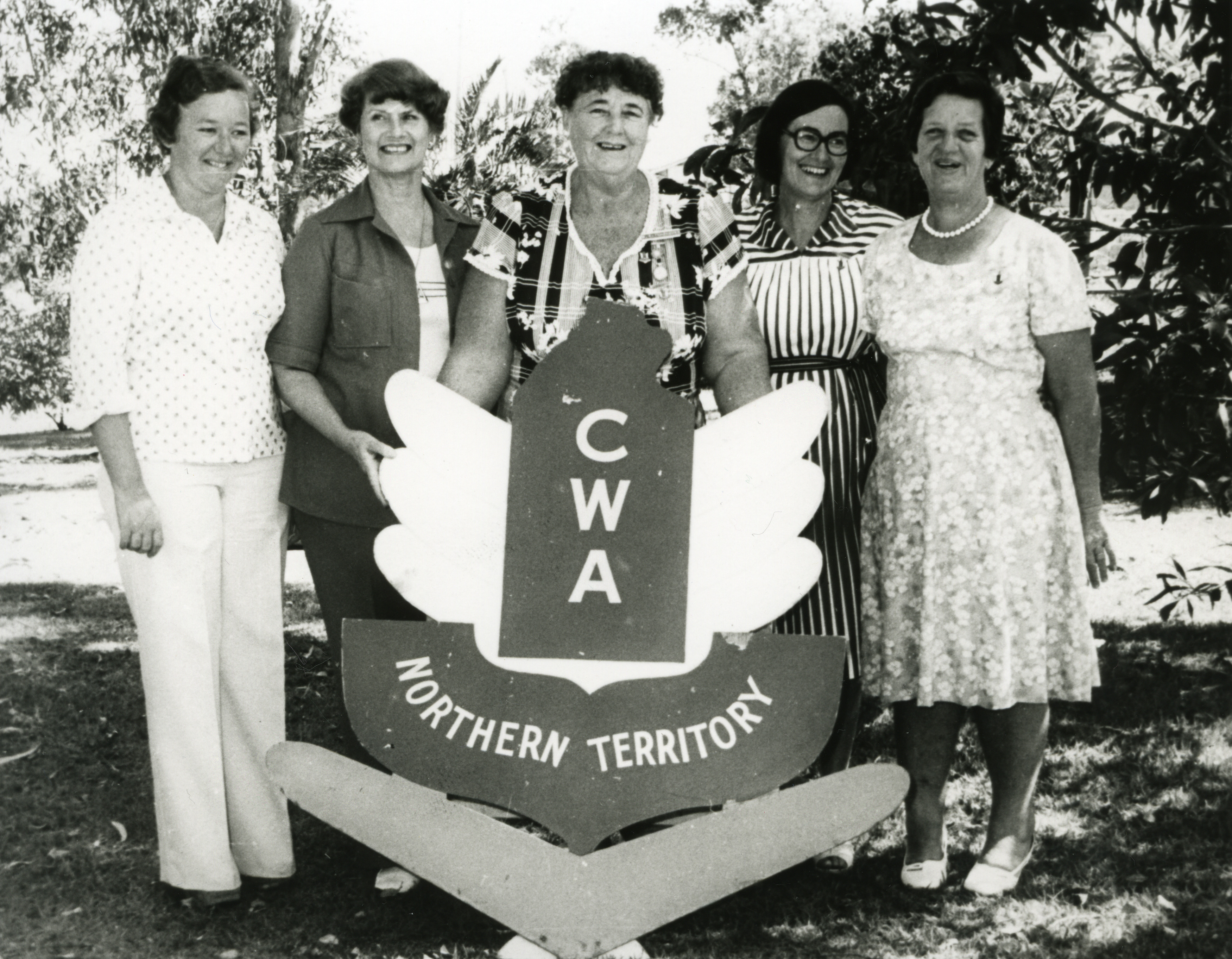 Berrimah representatives of the Country Women's Association - PH0554-0098